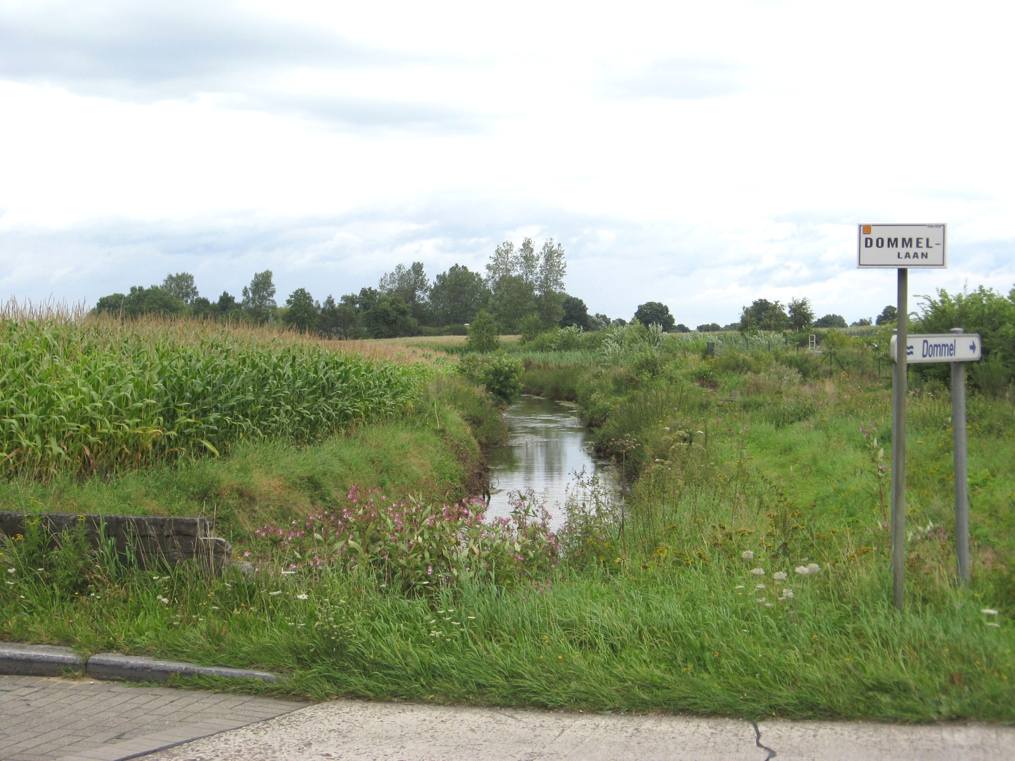 The Dommel river in Overpelt, Limburg, Belgium